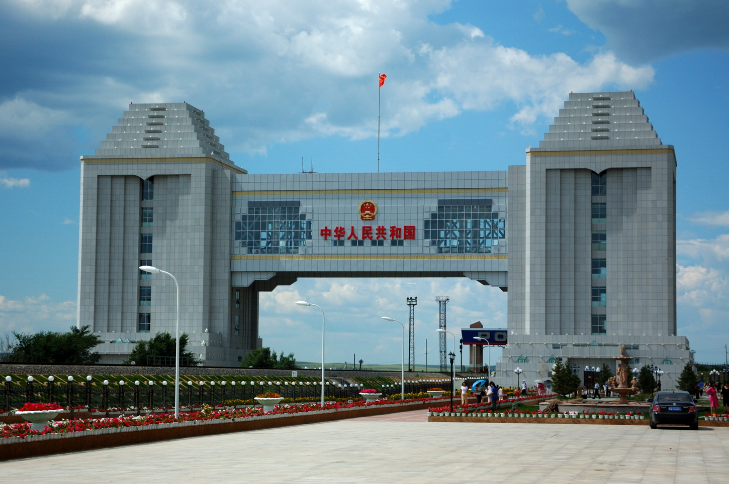 Manzhouli Gate